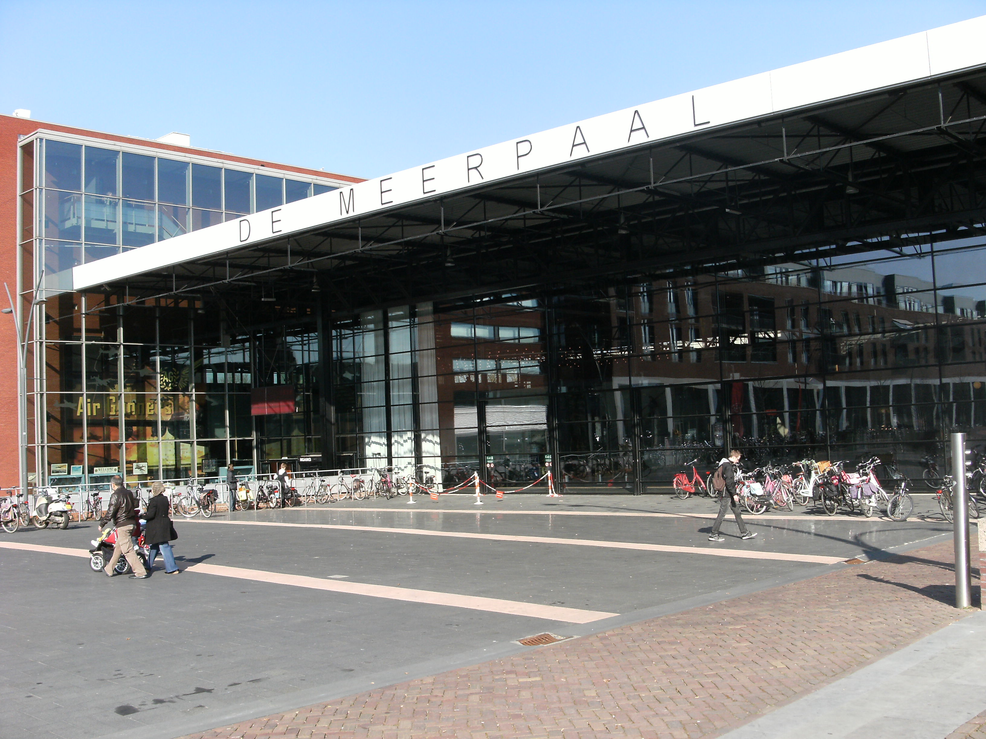 Dronten Meerpaal facade.